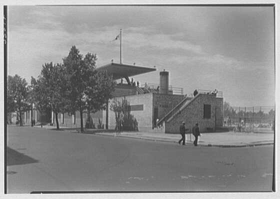 Title: Betsy Head Play Center, Hopkinson and Livonia Ave., Brooklyn, New York. Abstract/medium: Gottscho-Schleisner Collection (Library of Congress) Physical description: 1 negative